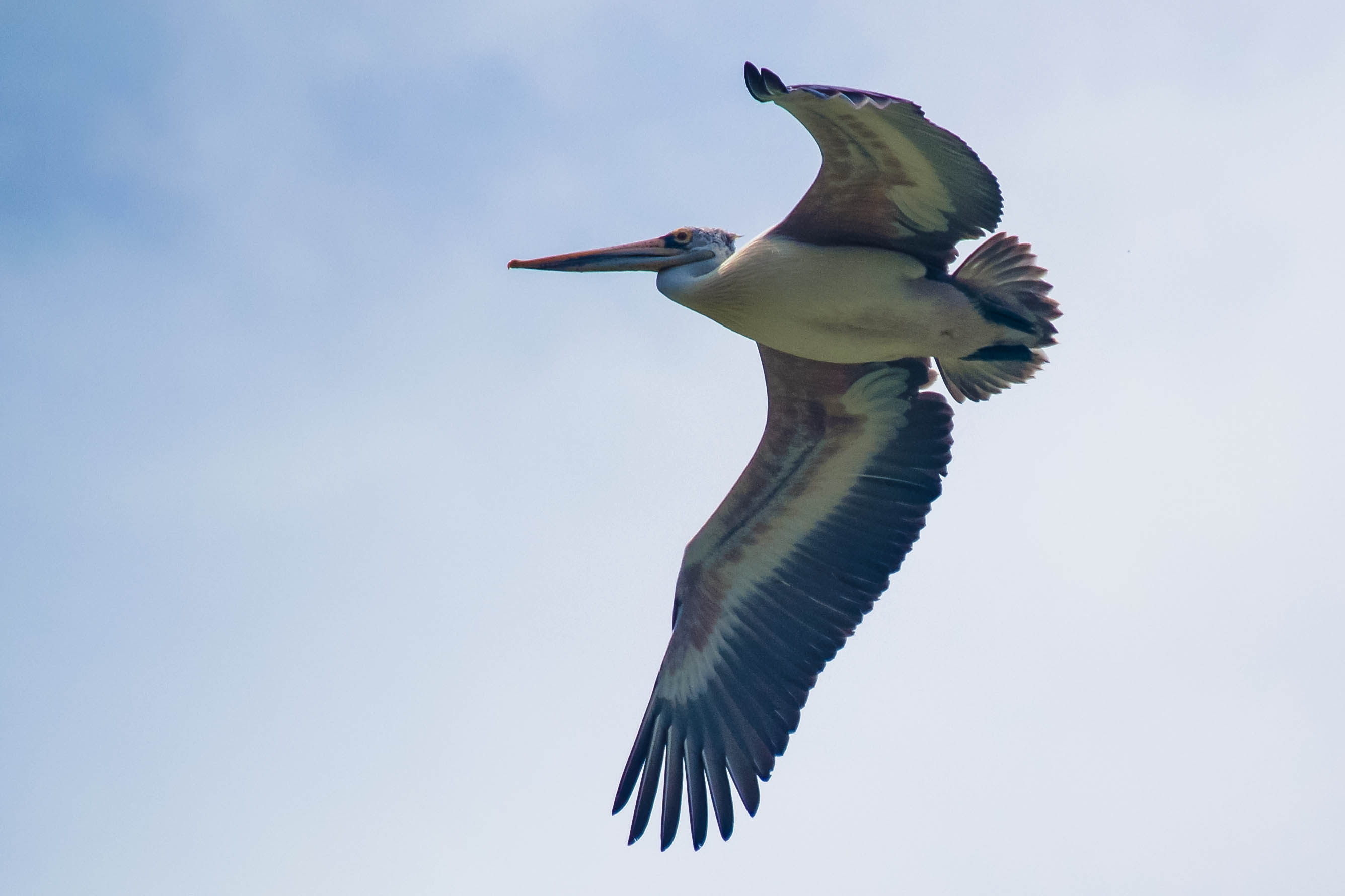 Spot-billed Pelican (Pelecanus philippensis) in flight at Koonthakulam bird sanctuary, India.